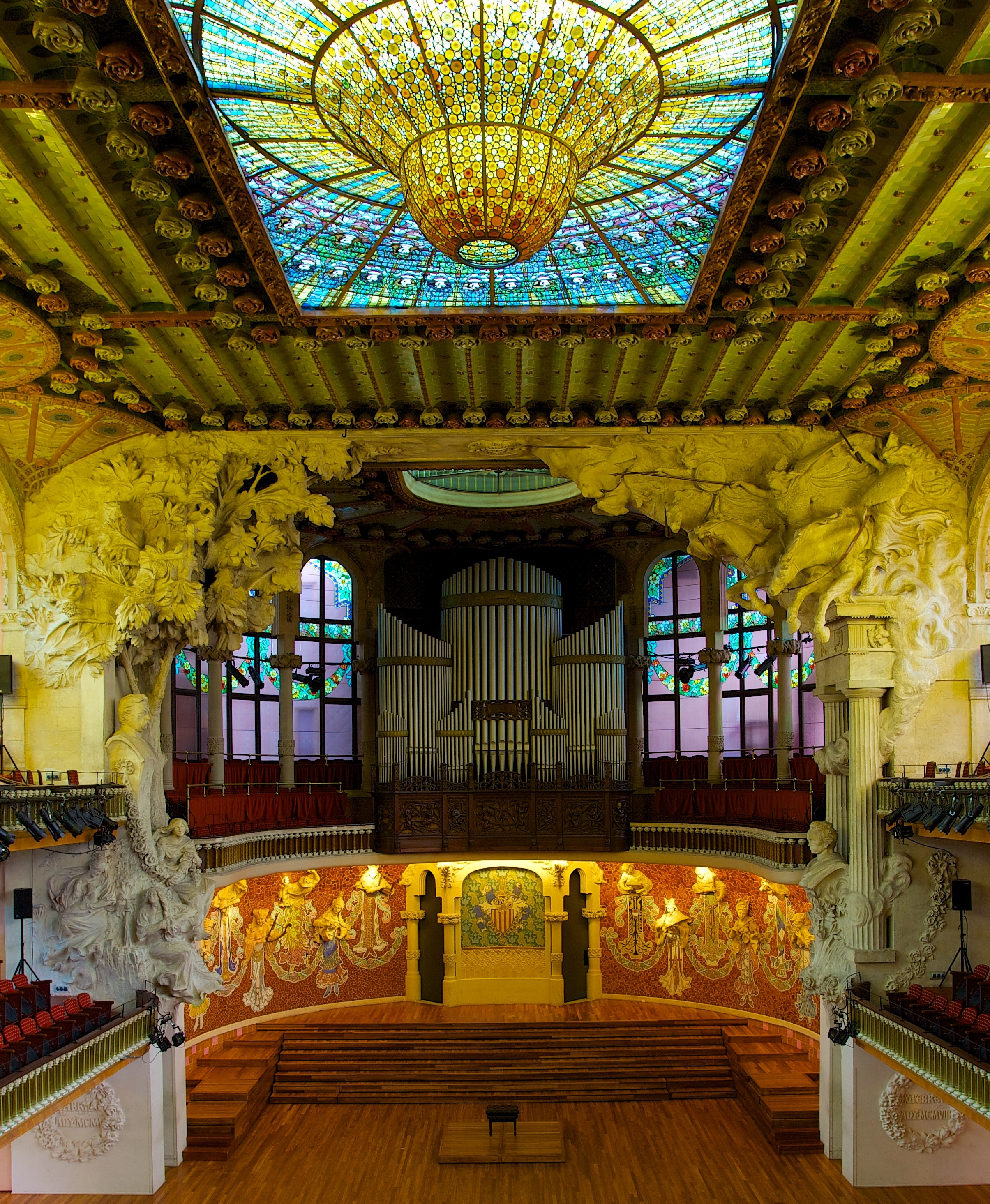 Catalan Concert Hall from the balcony